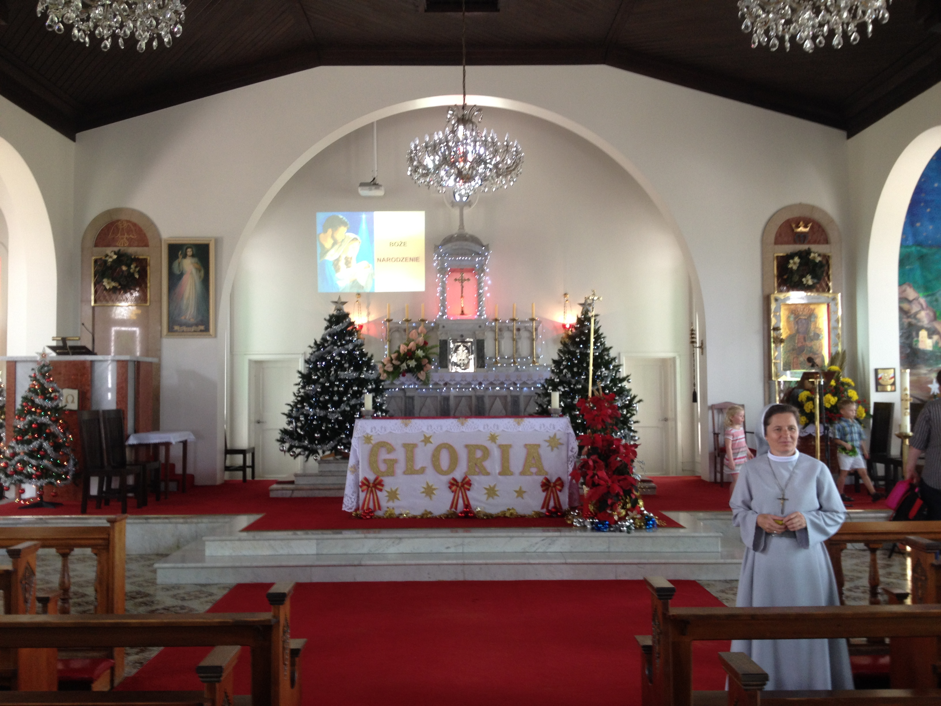 Altar in Our Lady of Victories Church, Brisbane